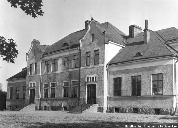 The old school in Almby, Örebro, Sweden